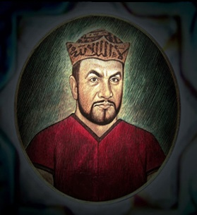 Sa'd al-Din Köpek